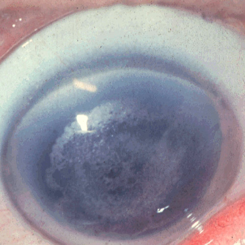 Schnyder corneal dystrophy. Crystalline opacities are evident in the central cornea (Courtesy Dr. G.N. Foulks). Klintworth Orphanet Journal of Rare Diseases 2009 4:7